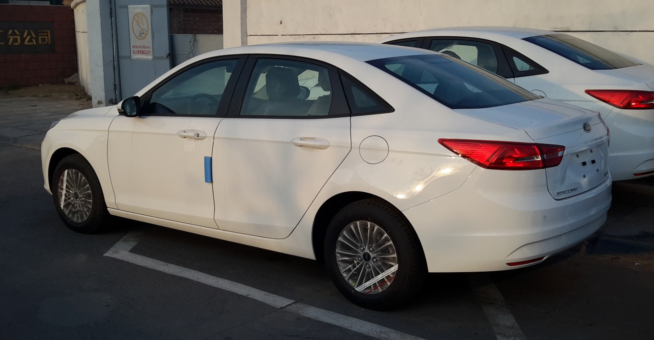 Ford Escort CN photographed in Beijing, China.